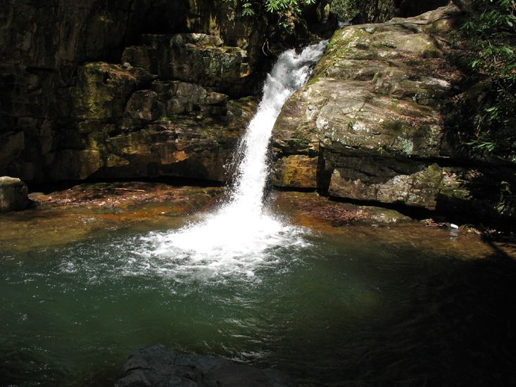 The main fall at Blue Hole Falls in Carter County, Tennessee.